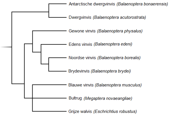 The rorquals' phylogenetic tree ascertained from DNA sequencing. NL version of Rorqual phylogenetic tree.svg